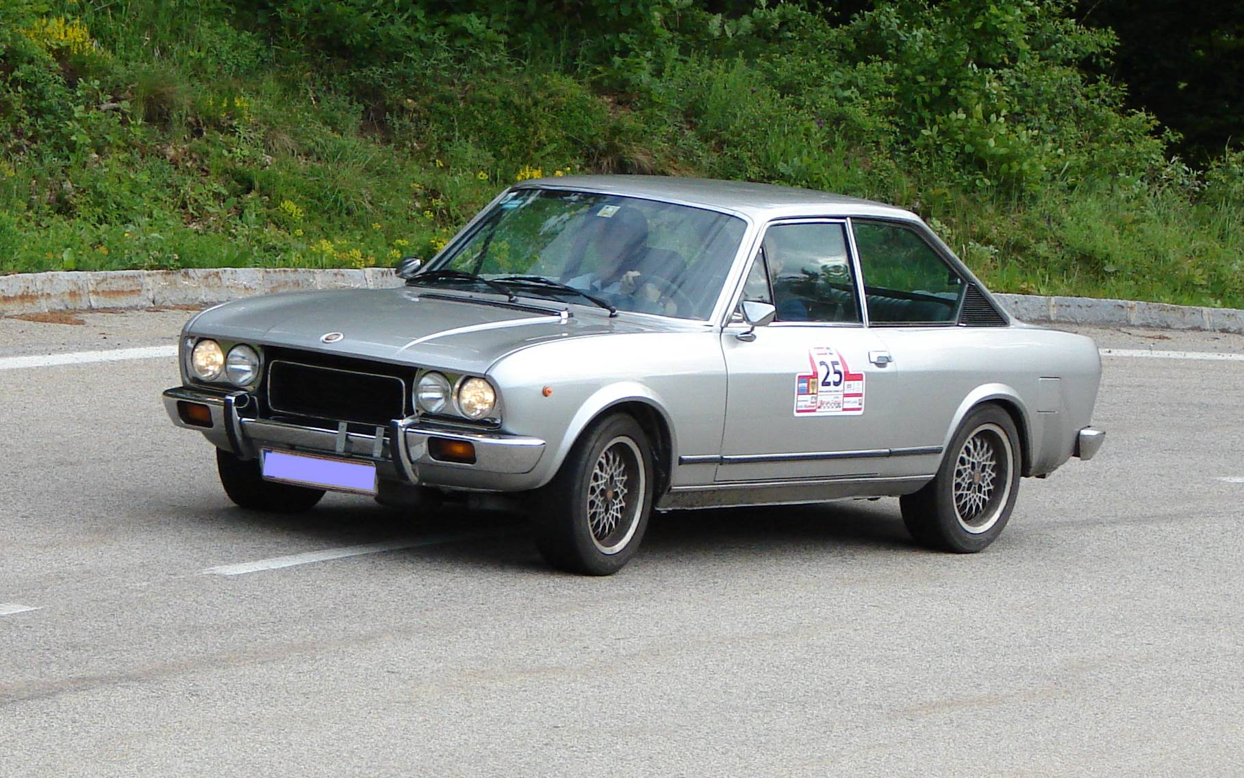 Fiat 124 Coupe 1800, built 1972, photographed May 2006 at the "Wachau Classic 2006" oldtimer rallye